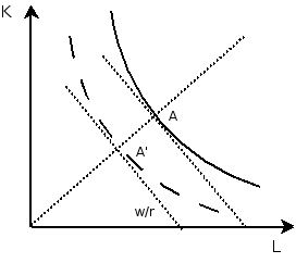 Hicks neutral technical change. File created by Giuseppe.Vittucci